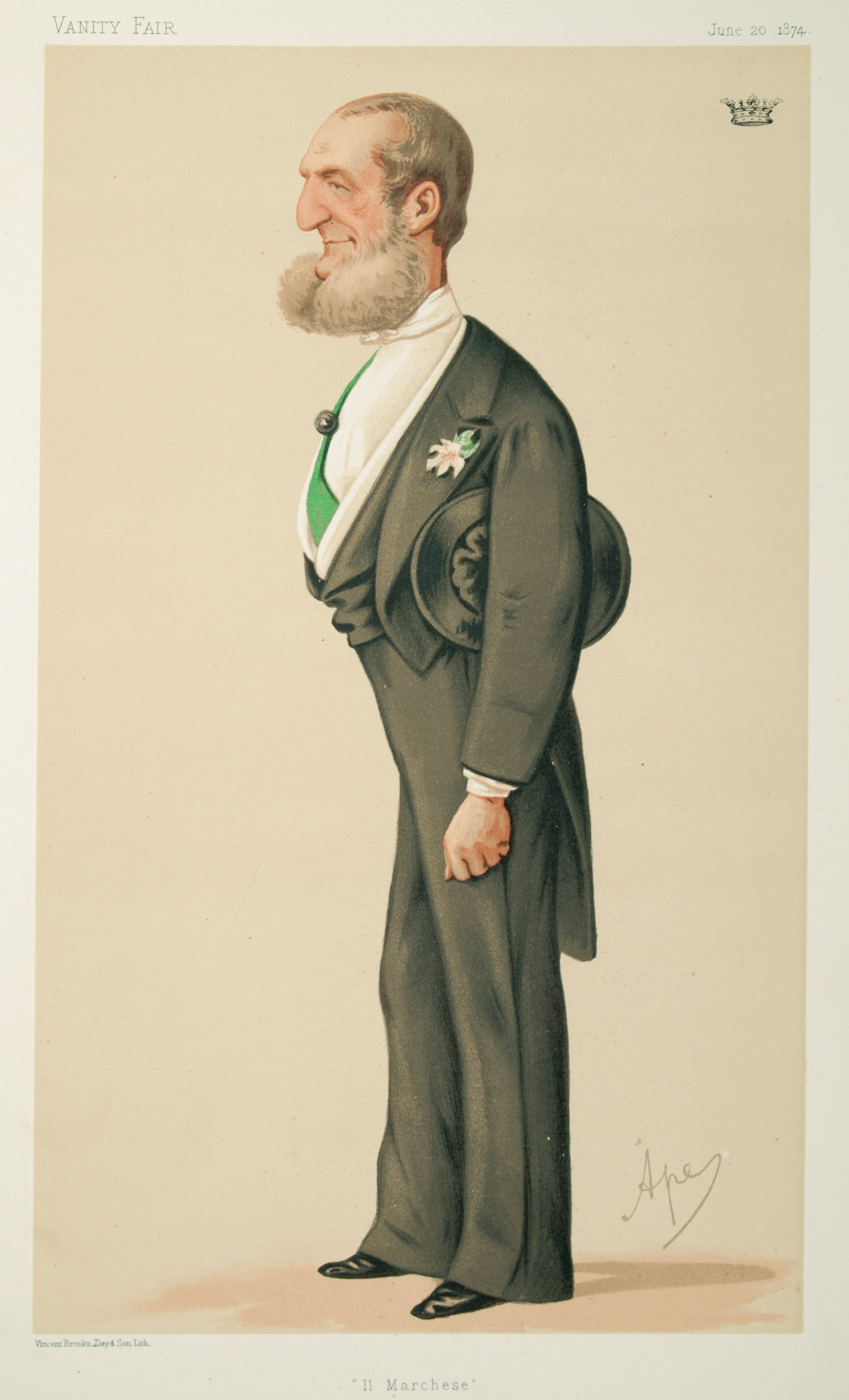 Men of the Day No.84: Caricature of The Marquis D'Azeglio, ambassador of Sardinia to Britain. Caption read "Il Marchese".